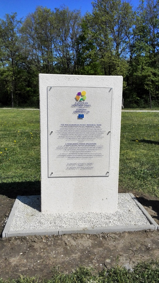 The picture is of a European Heritage Label Plaque bearing the inscription "It features on the European Union’s list of European Heritage sites because of the significant role it has played in the history and culture of Europe."